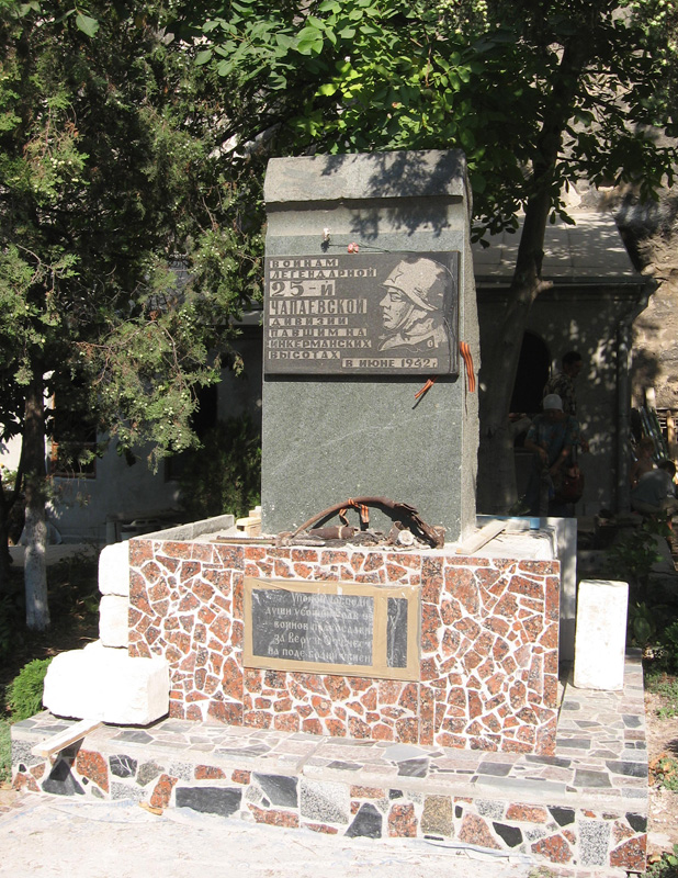 25 division monument. They fighted Germans in 1941-1942 here. The quarters of the division where right in the monastery.